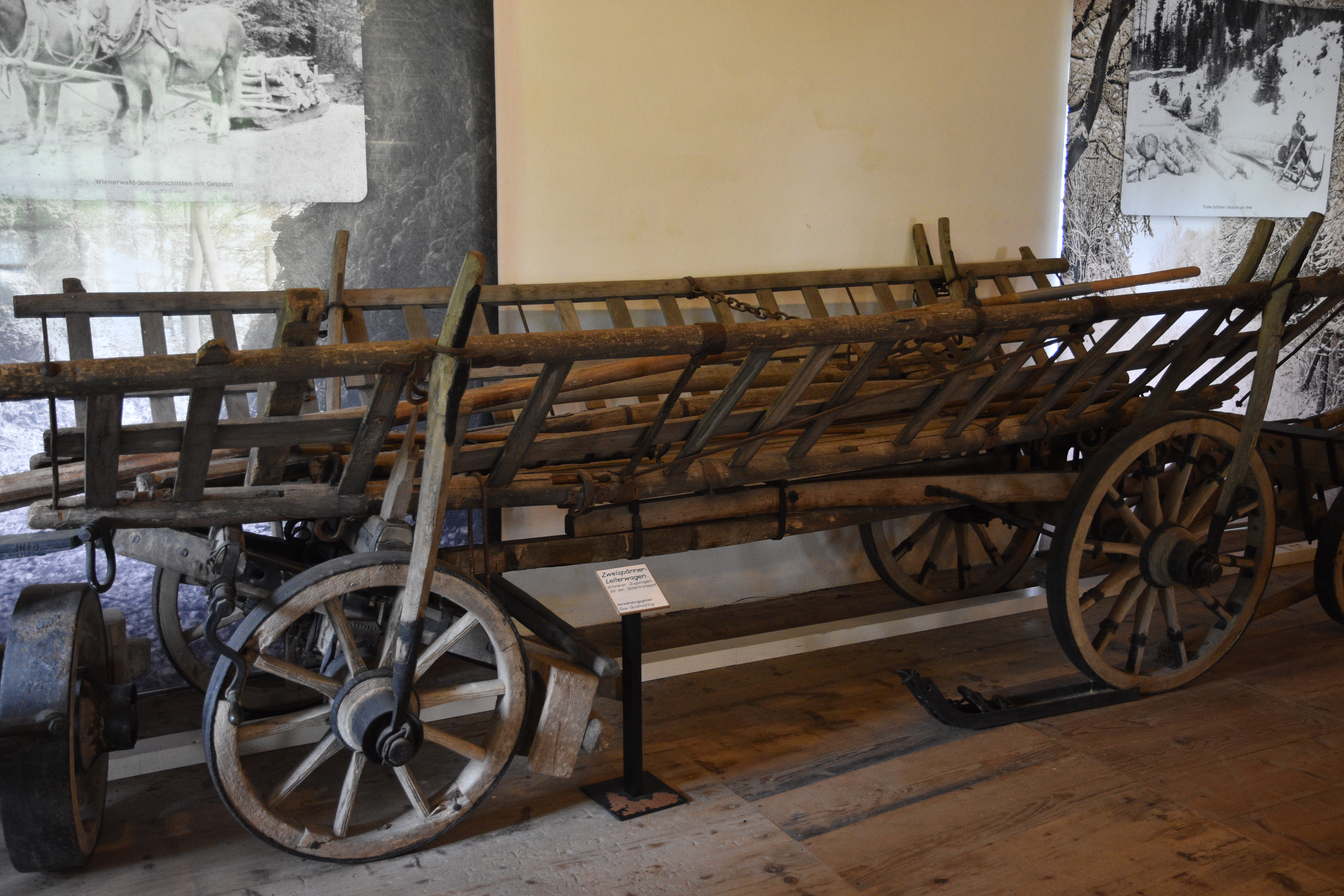 Museum Forstmuseum Silvanum Großreifling - Interior